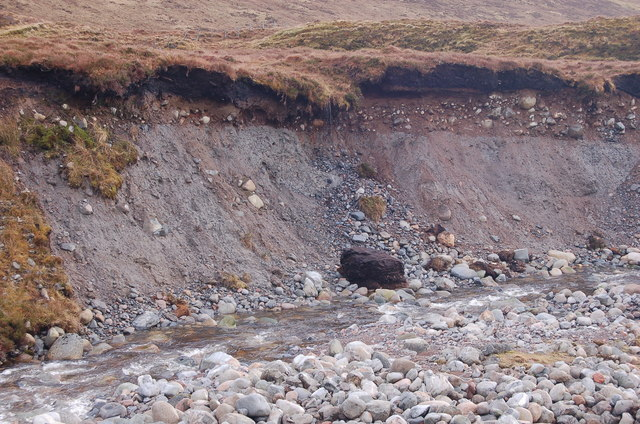 Glacial debris revealed The burn has cut a striking cross section showing clay and boulder debris below the layer of peat.